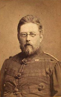 Johan Christopher Georg Hedemann (1825-1901), Danish officer